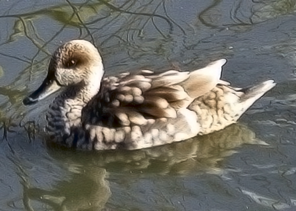 Marbled Teal at Slimbridge Wildfowl and Wetlands Centre, Gloucestershire, England.